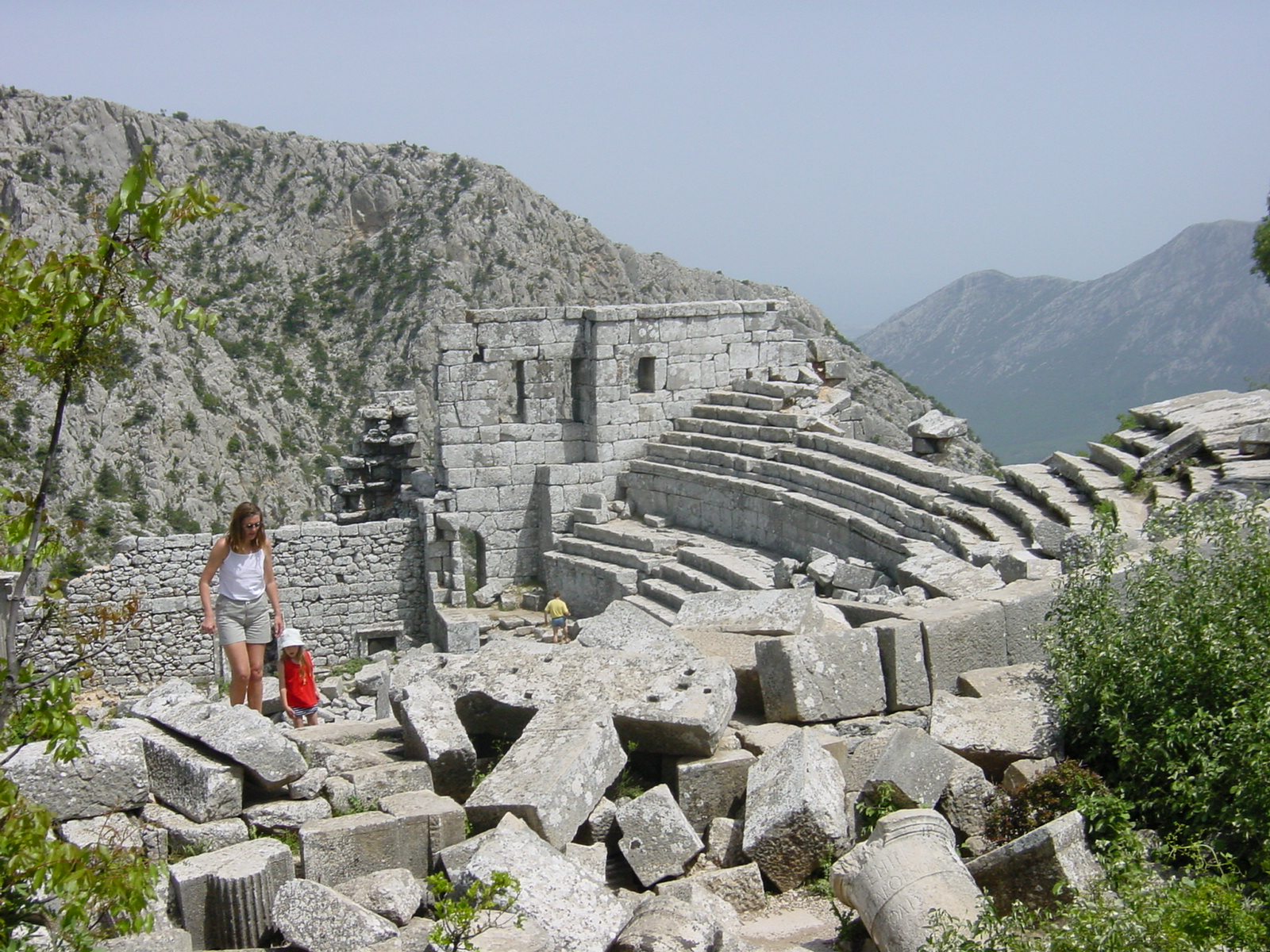 View from the amphitheatre at Termessos